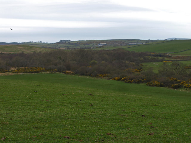 View from Pen Hill Looking west over what was an inlet on the north shore of Dowalton Loch. The hill on the left is Inner Wood Hill, that to the right is Loch Hill.